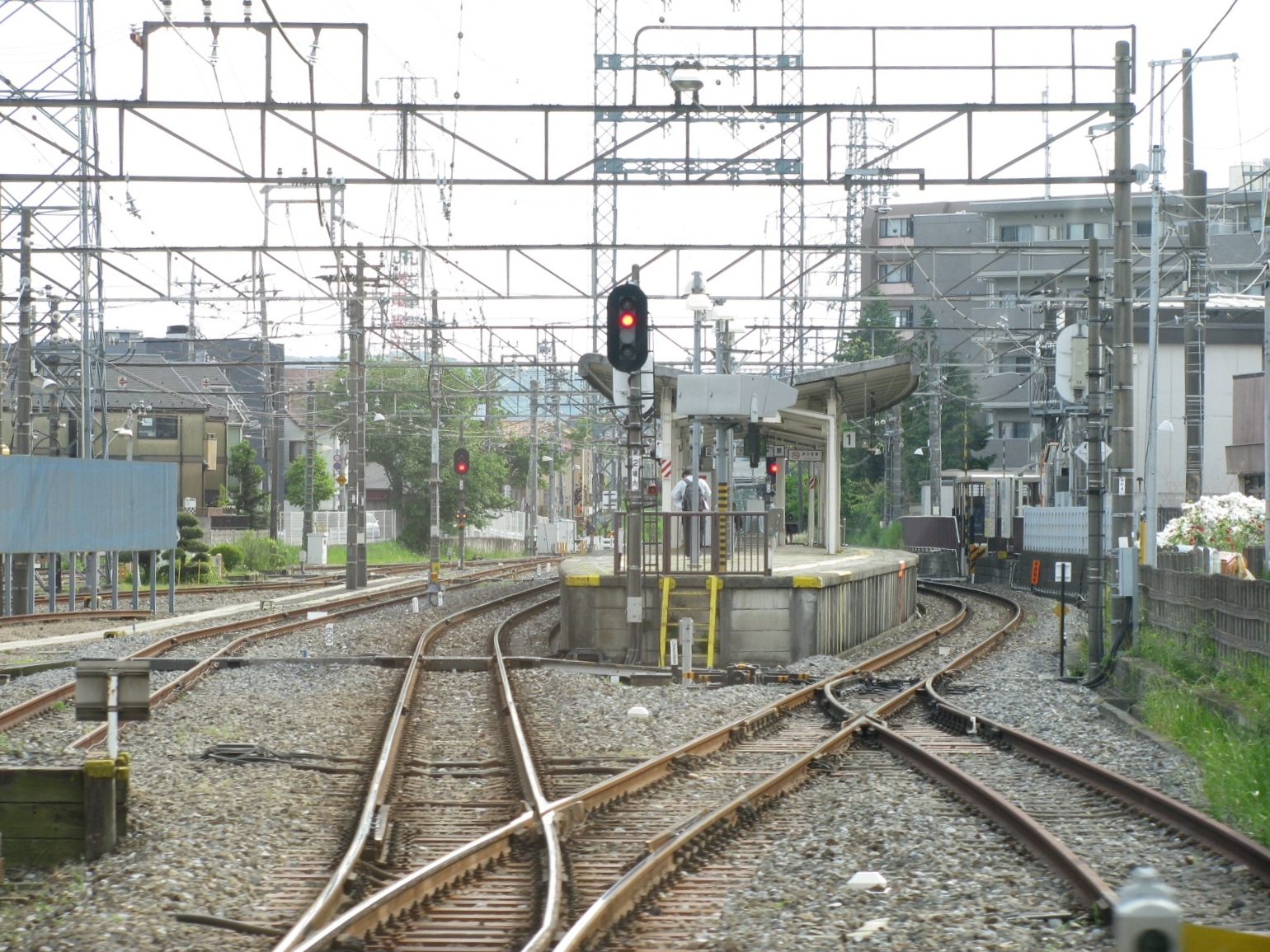 Shiraitodai Station, from level crossing.